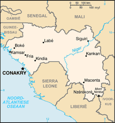 An Afrikaans map of Guinea.